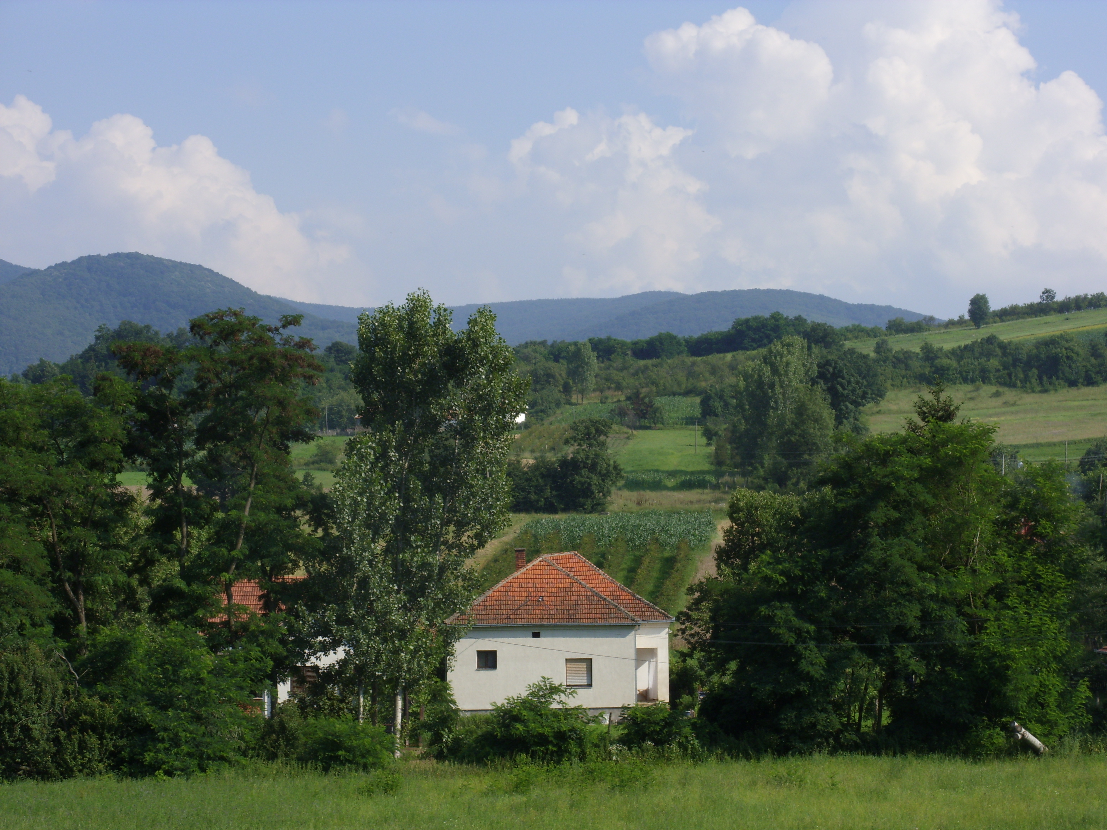 village of Lupten, Aleksinac Municipality, Serbia